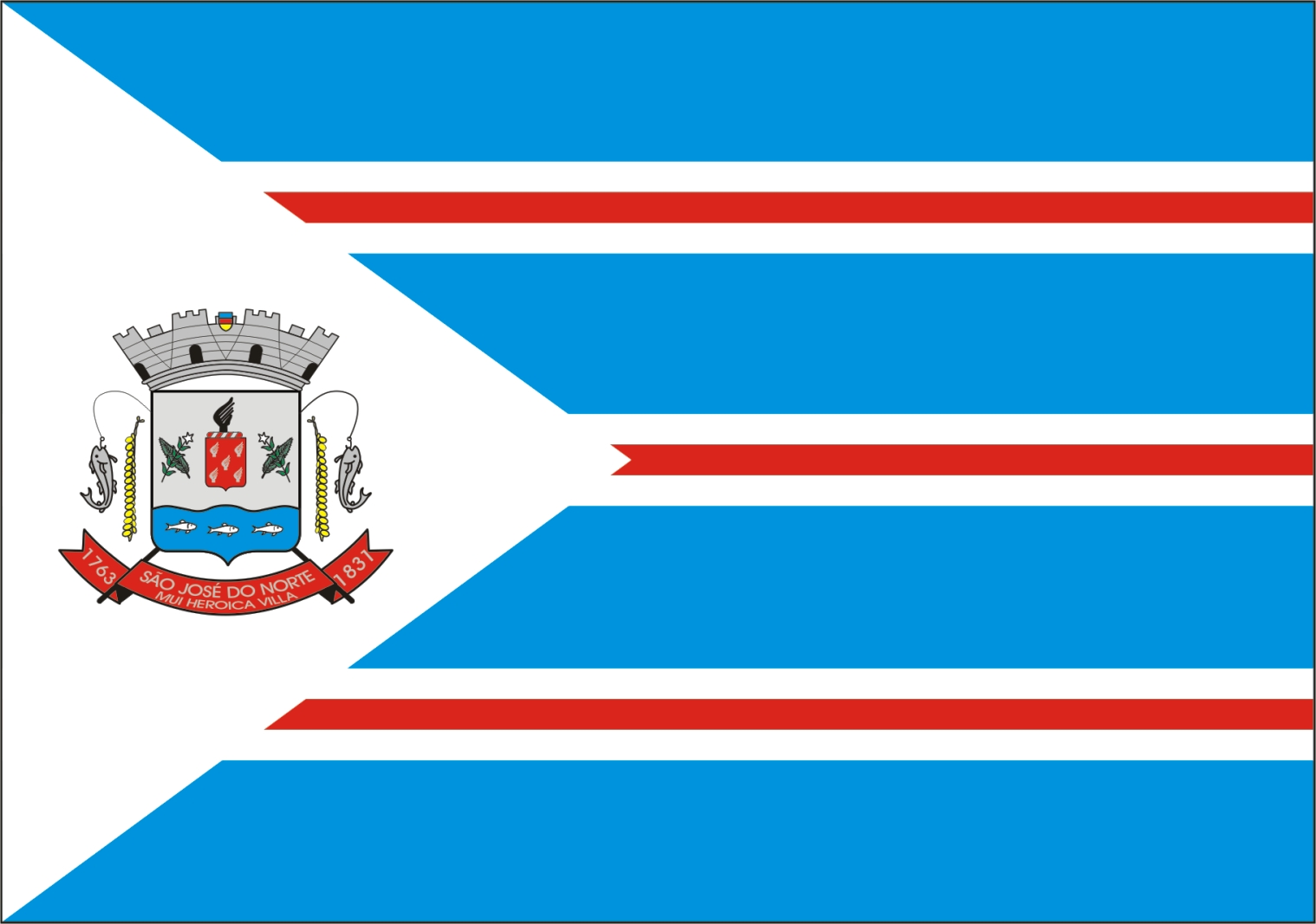 Flag of the city of São José do Norte, Rio Grande do Sul, Brazil.